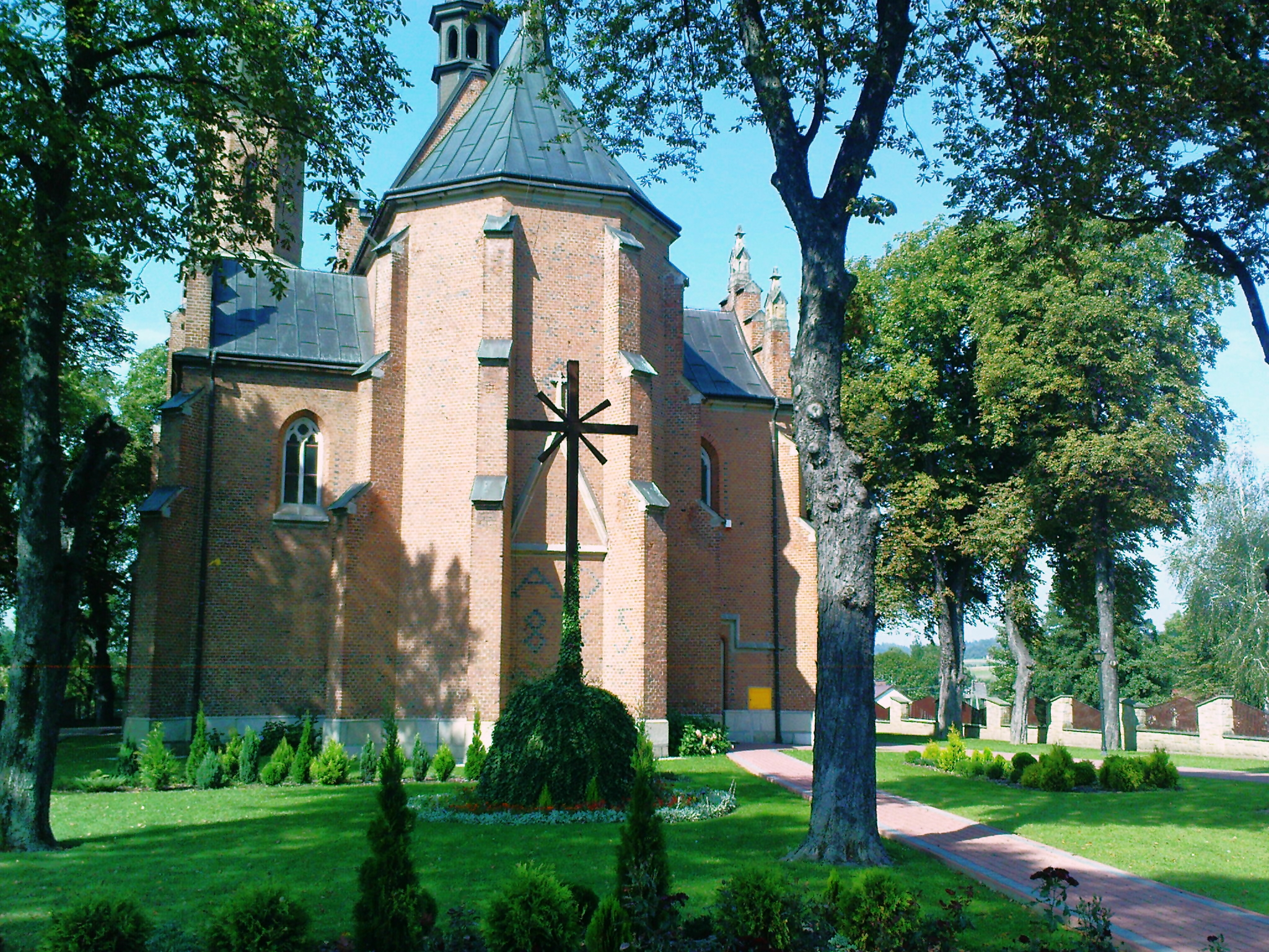 Parish Church of St. Martin the Bishop in Łużna